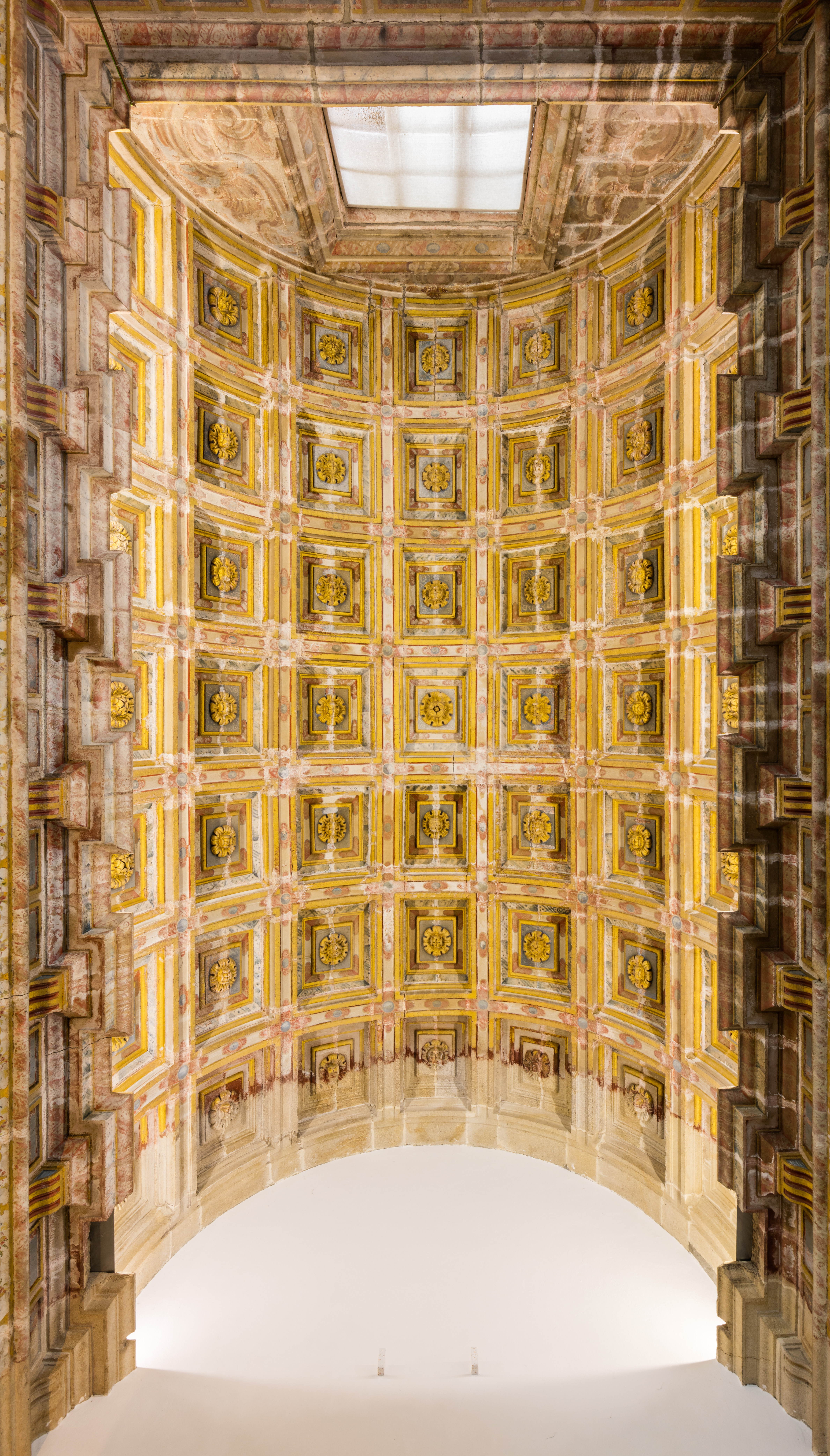 San Martin Monastery, Santiago de Compostela, Spain